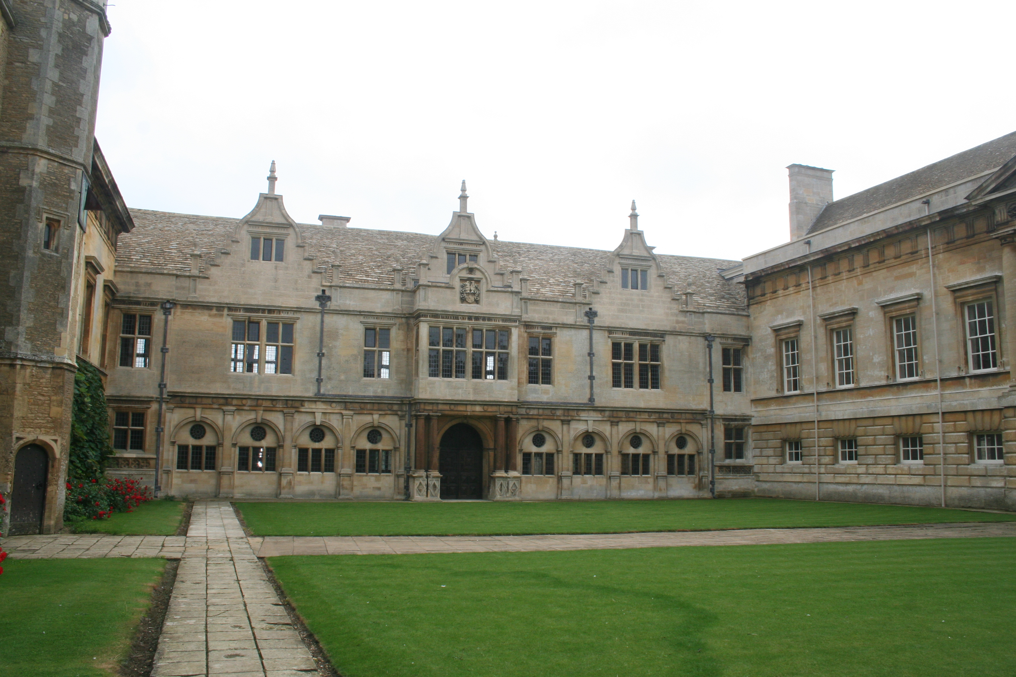 Apethorpe Main Courtyard - see metadat